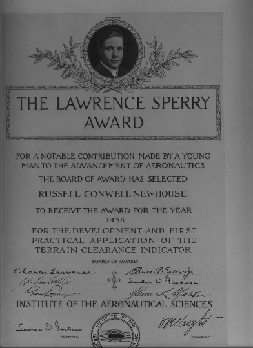 1938 Lawrence Sperry Award given to Russell Conwell Newhouse, Ohio State Graduate.